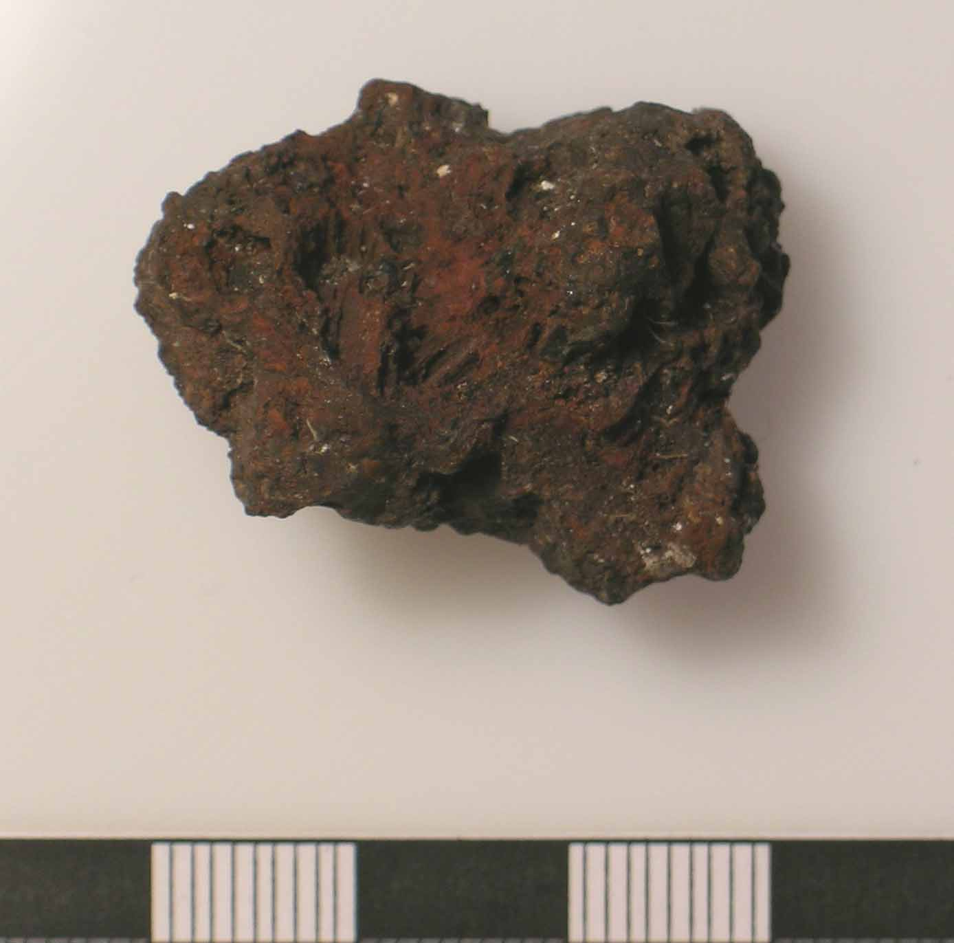 Lump of bloomary slag. A record of this find has been included because it was found in association with coins, pottery and other domestic artefacts, from the same field.